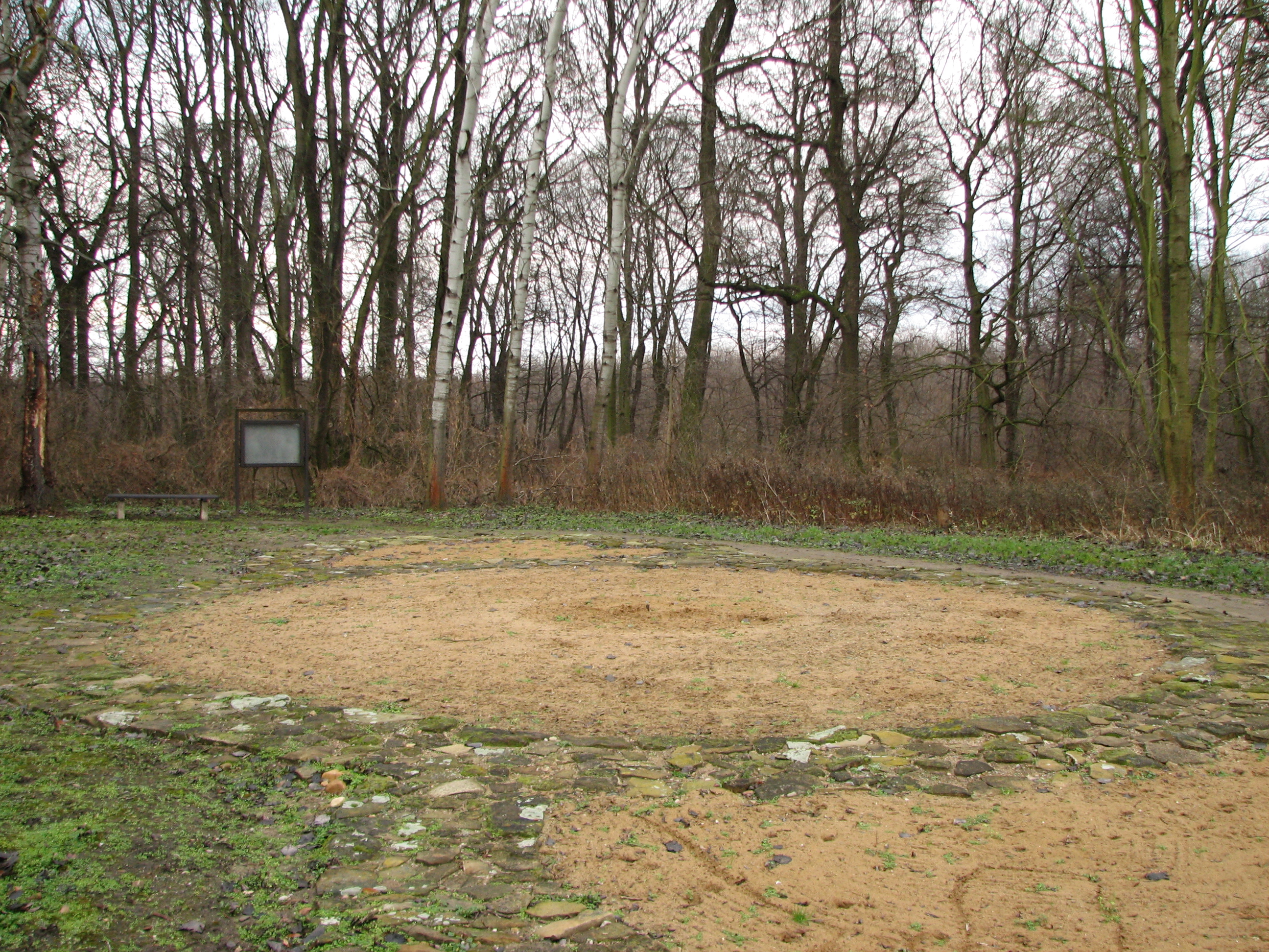 Archaeological museum Mikulčice valy - stone foundations of a church